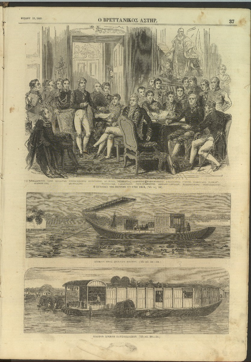 Vrettanikos Astir (British Star), Greek magazine published in London, page from 19 Sept 1860 issue showing the illustration of the magazine